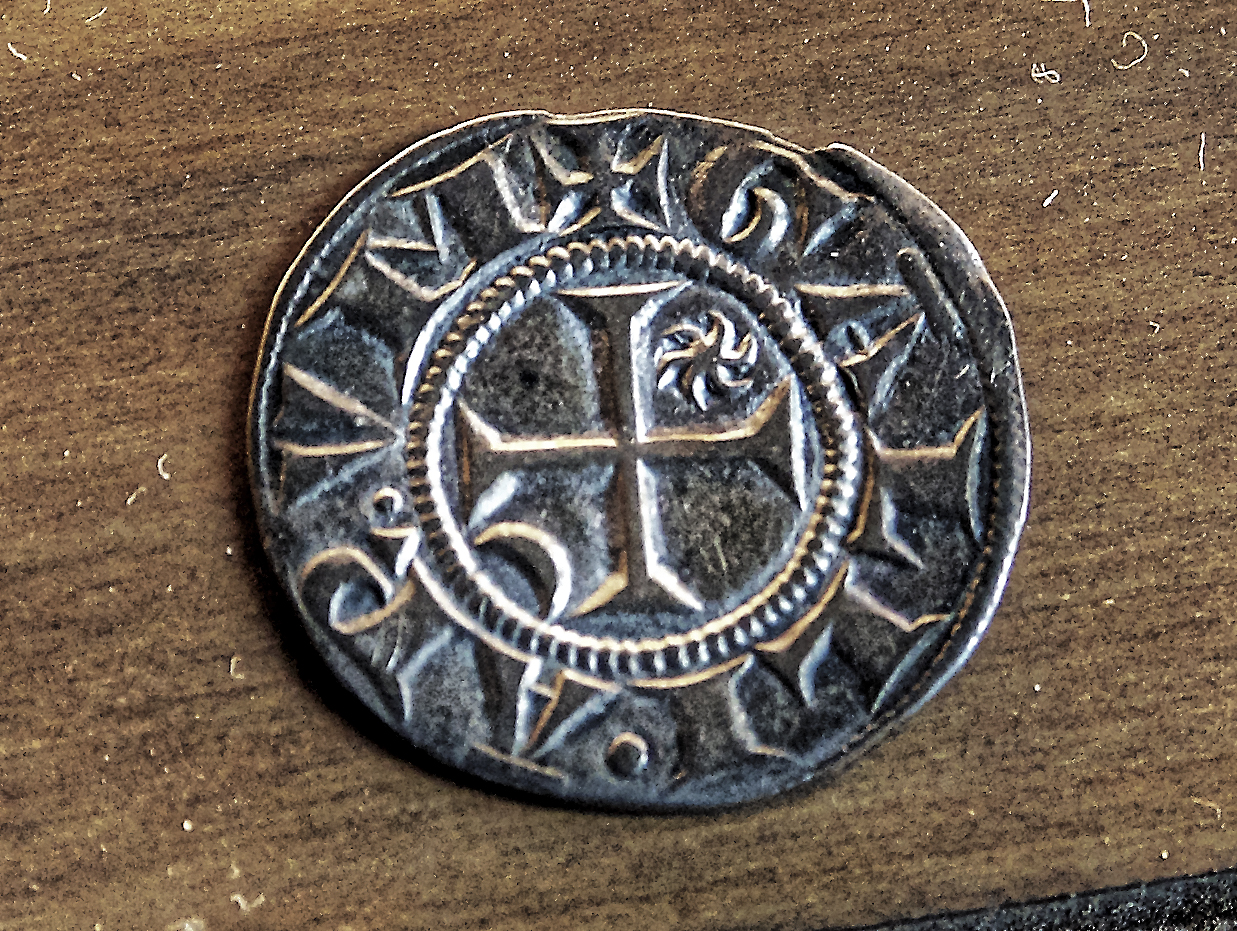 Fort lyonnais, monnaie anonyme frappée pour le compte de l'église de Lyon, archevêque et chapitre de chanoines entre le 11 et le 14e siècle. Conservé au médailler du Musée des beaux-arts de Lyon ; salle publique.